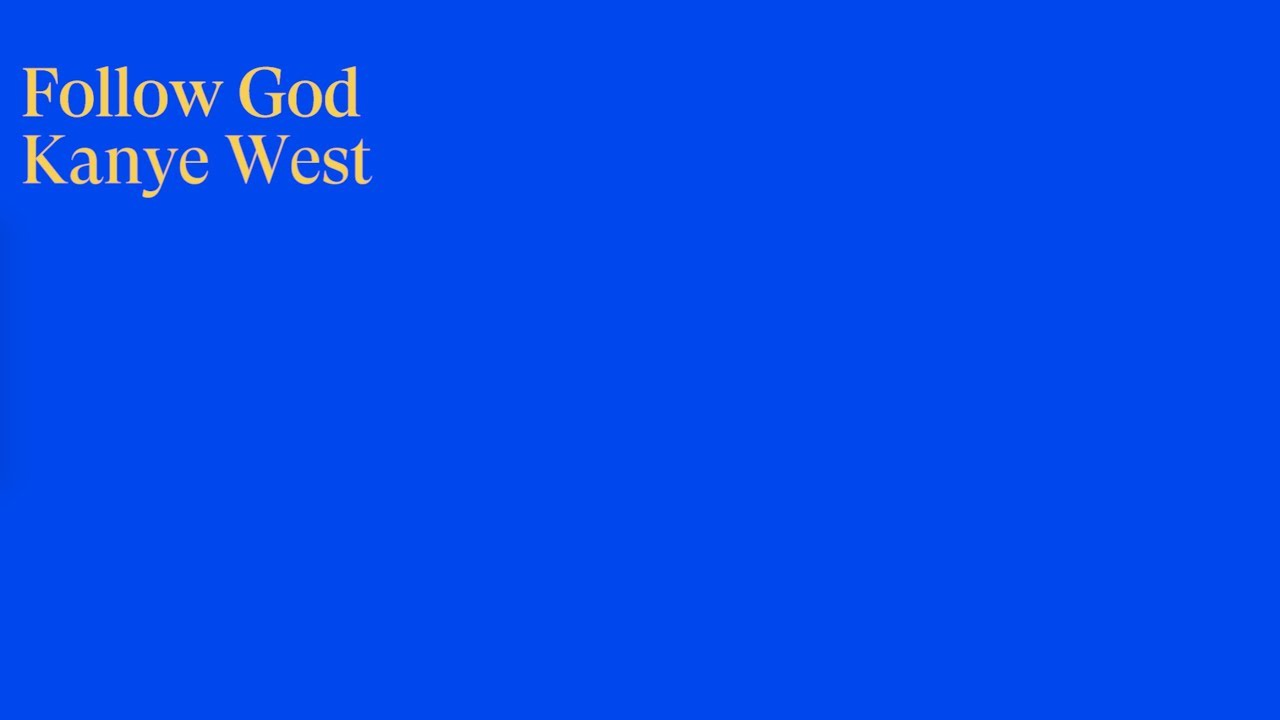 Thumbnail for the lyric video of Kanye West's 2019 single "Follow God"